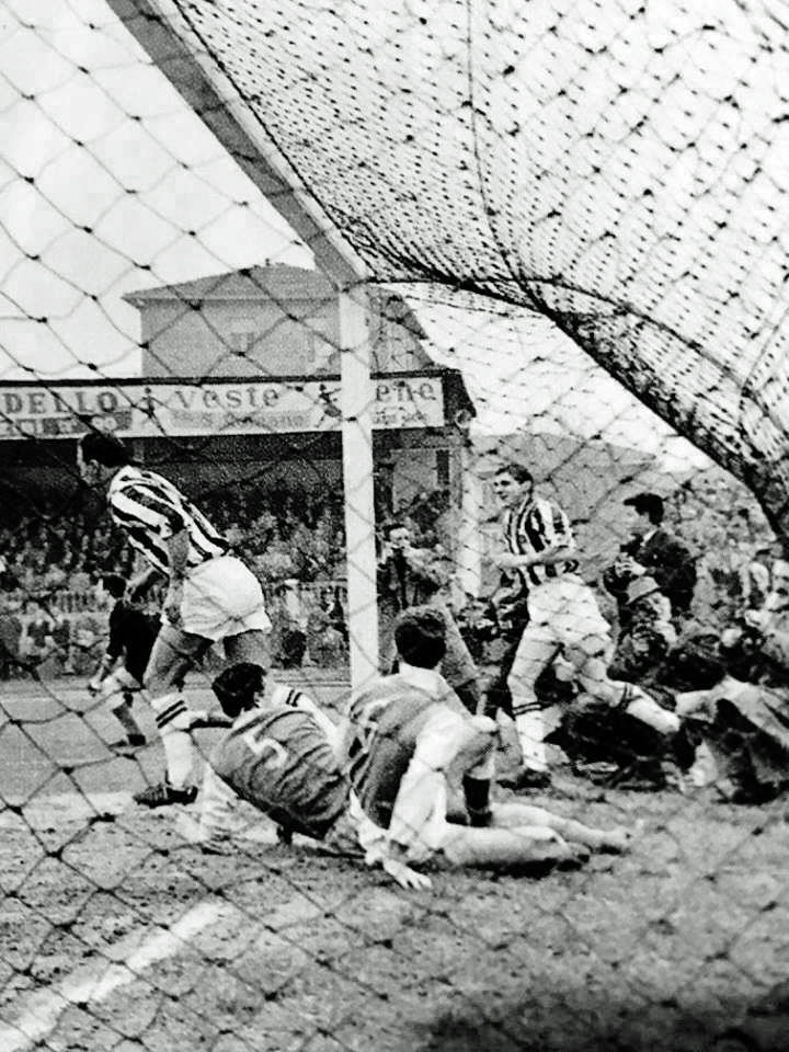 Ferrara (Italy), Communal Stadium, February 21, 1960. S.P.A.L. — Juventus F.C. 3-6, Matchday 20 of the Italian League 1959–60 Serie A. Juventus' forward John Charles (left) scores the 1st goal of the match.